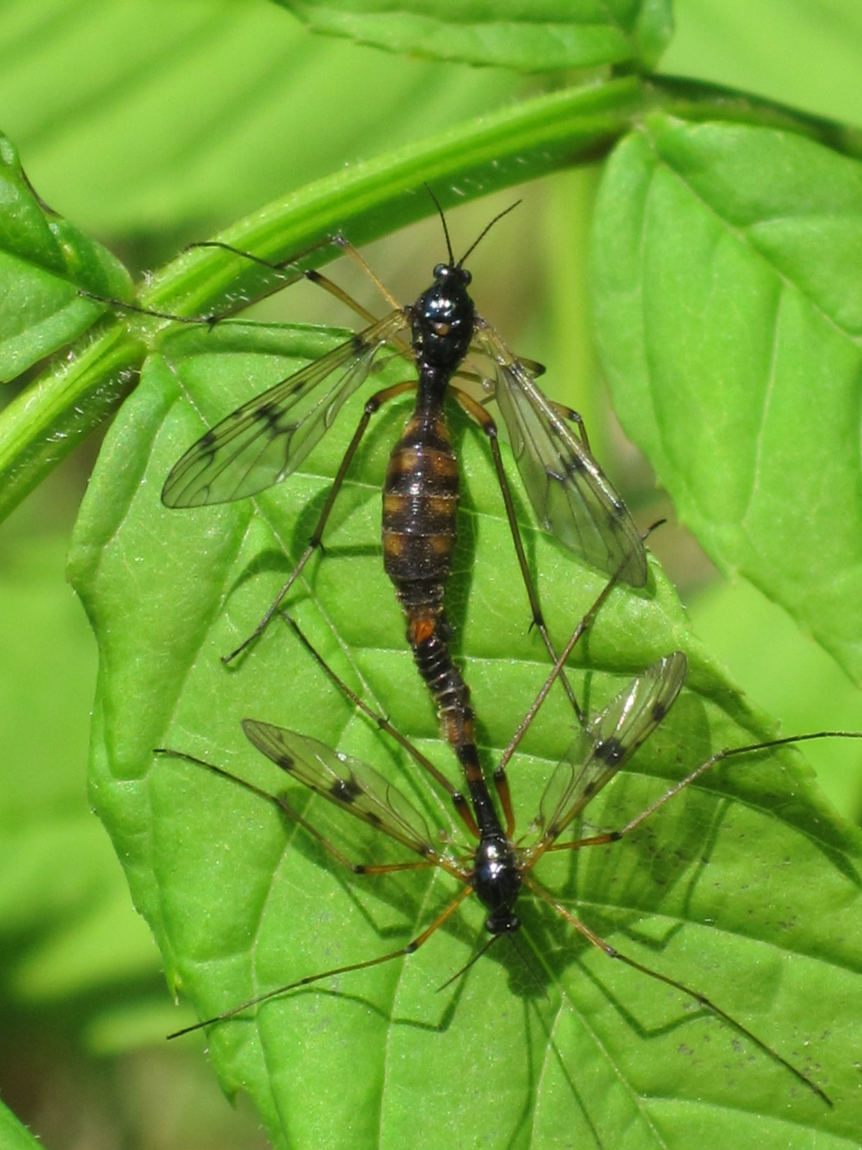 Ptychoptera contaminata (phantom crane fly) mating, Arnhem, the Netherlands